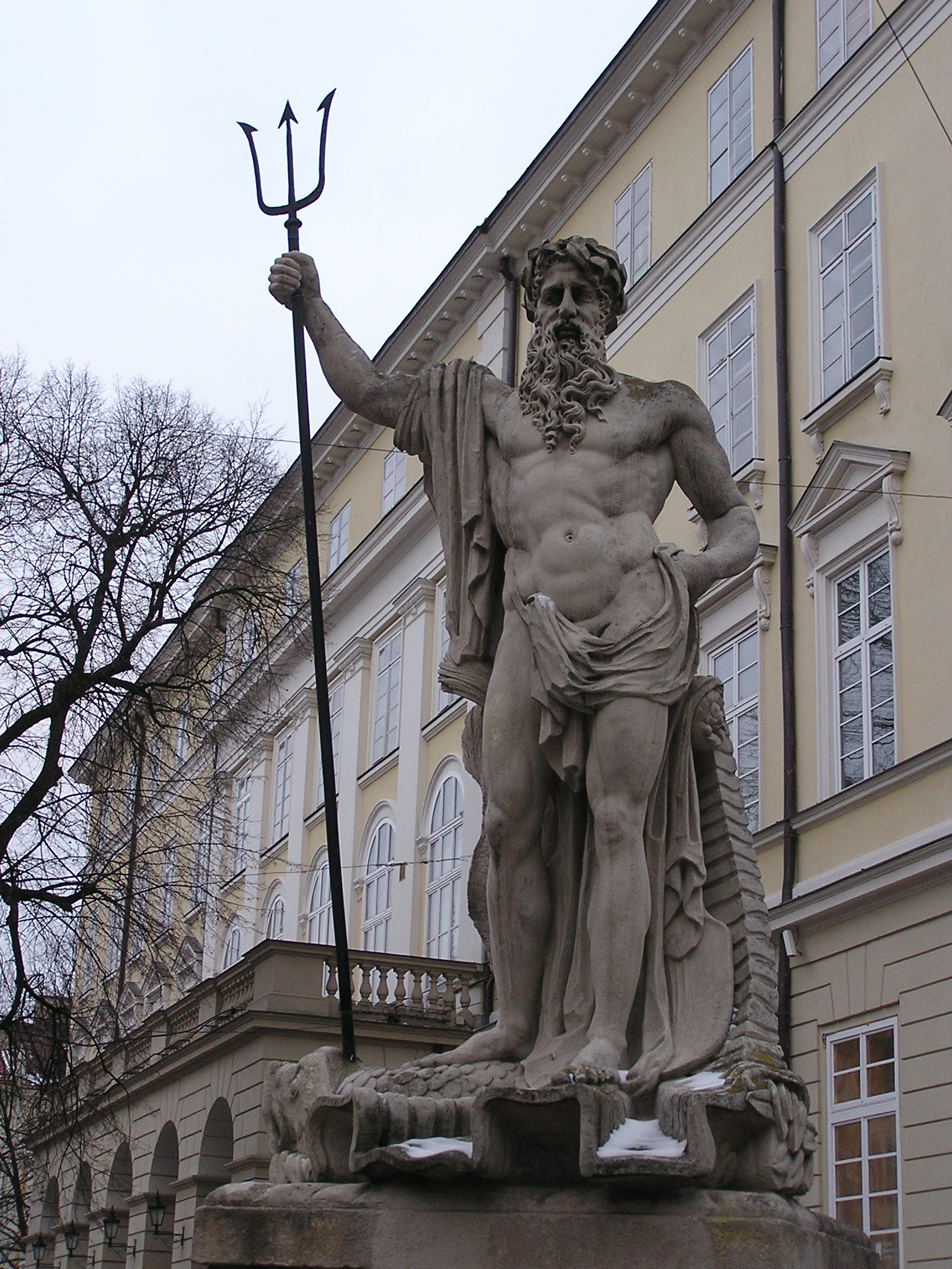 Lviv